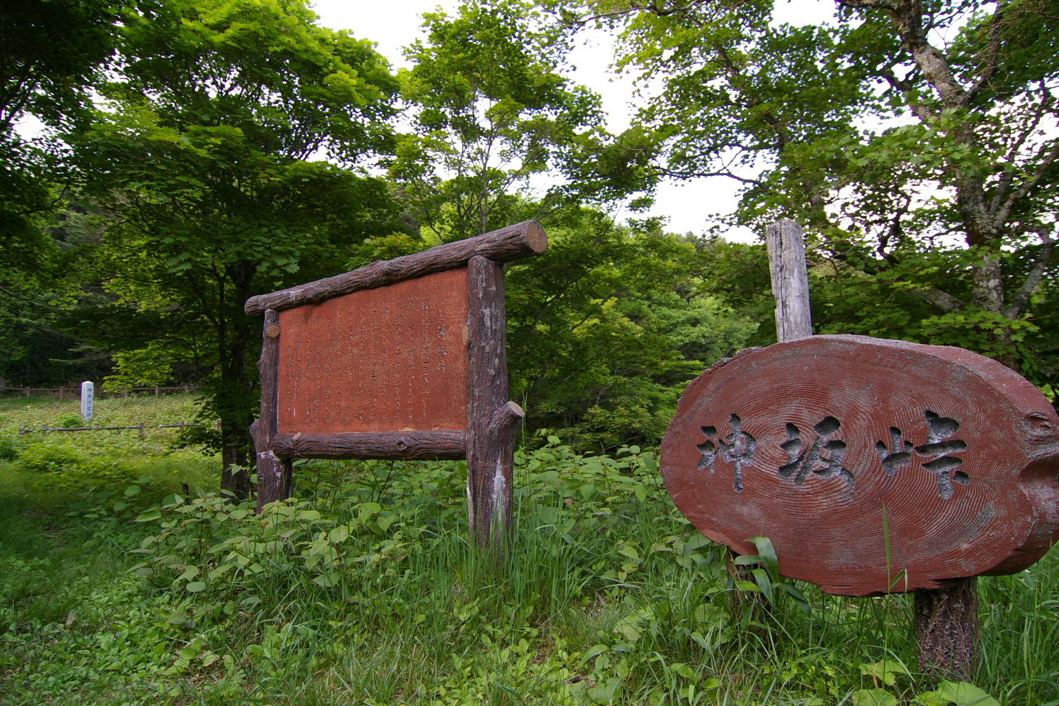 Mt. Misaka (Agi Nakatsugawa City, Gifu Pref., Japan)